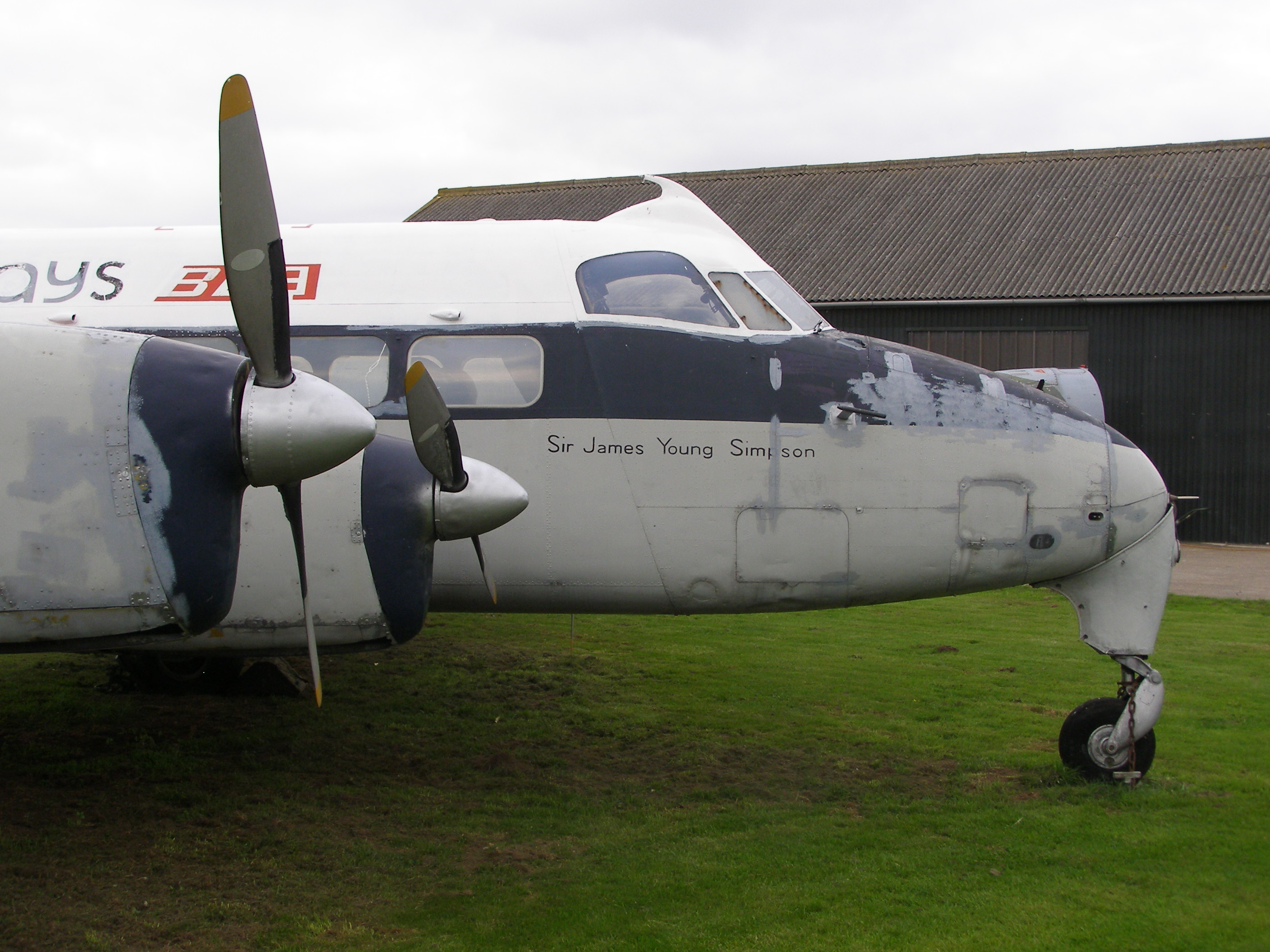 De Havilland Heron 1B G-ANXB on display at the Newark Air Museum